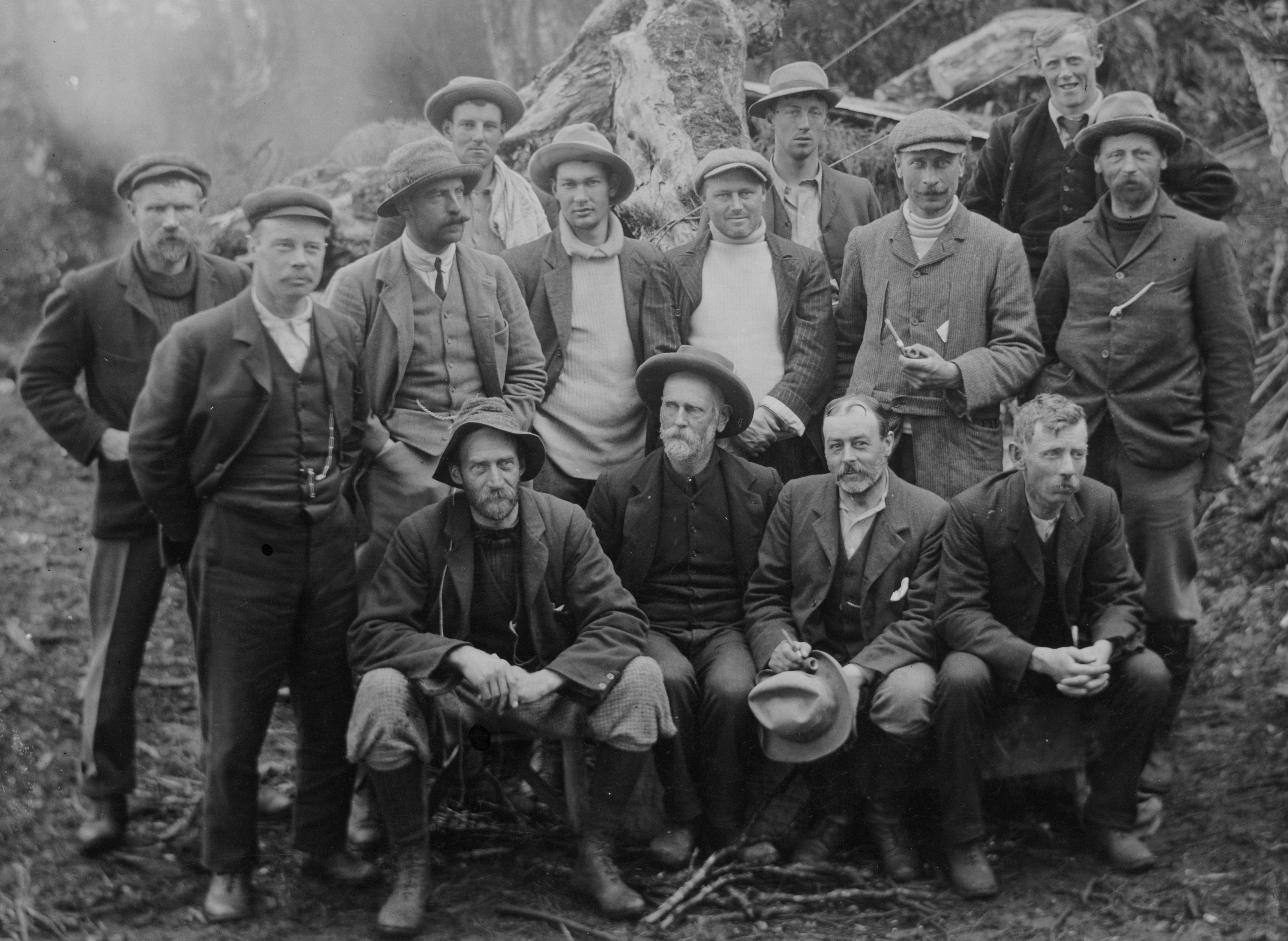 Members of the Auckland Islands Party of the Sub-Antarctic Expedition: Bottom row, from left: Edgar R Waite, Dr Leonard Cockayne, Dr William Blaxland Benham, Dr Clinton Coleridge Farr. Centre row, from left: Mr George Vernon Hudson, Captain Arthur A Dorrien-Smith, H D Cook, Bernard Cracroft Aston, John Smaillie Tennant, Robert Speight. Back row, from left: Samuel Page, A M Finlayson, G S Collyns, H B North. Photograph taken in November 1907 by Samuel Page.